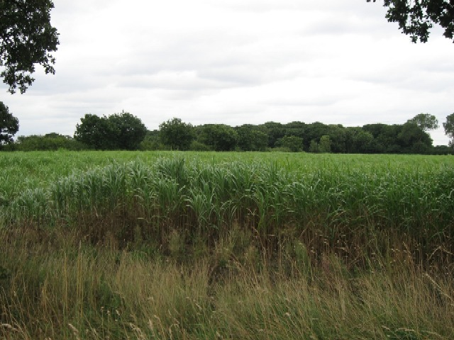 Reeds, A Crop And Trees near Owsthorpe, East Riding of Yorkshire, England.Reeds are common in an area with so many drainage ditches.